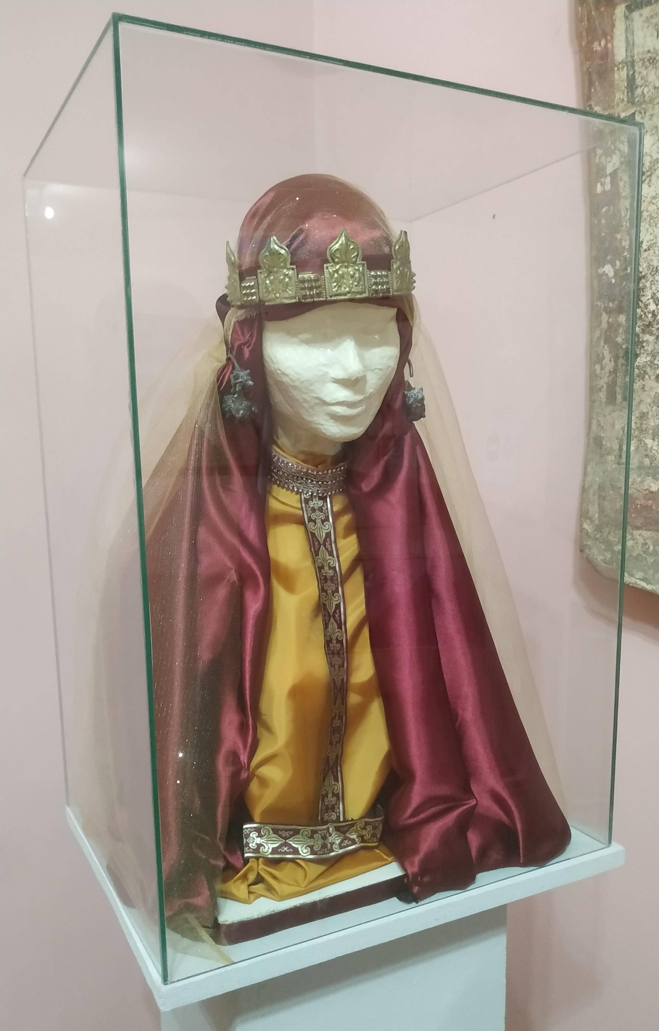 Serbian medieval noblewoman, exibited at National Museum in Požarevac